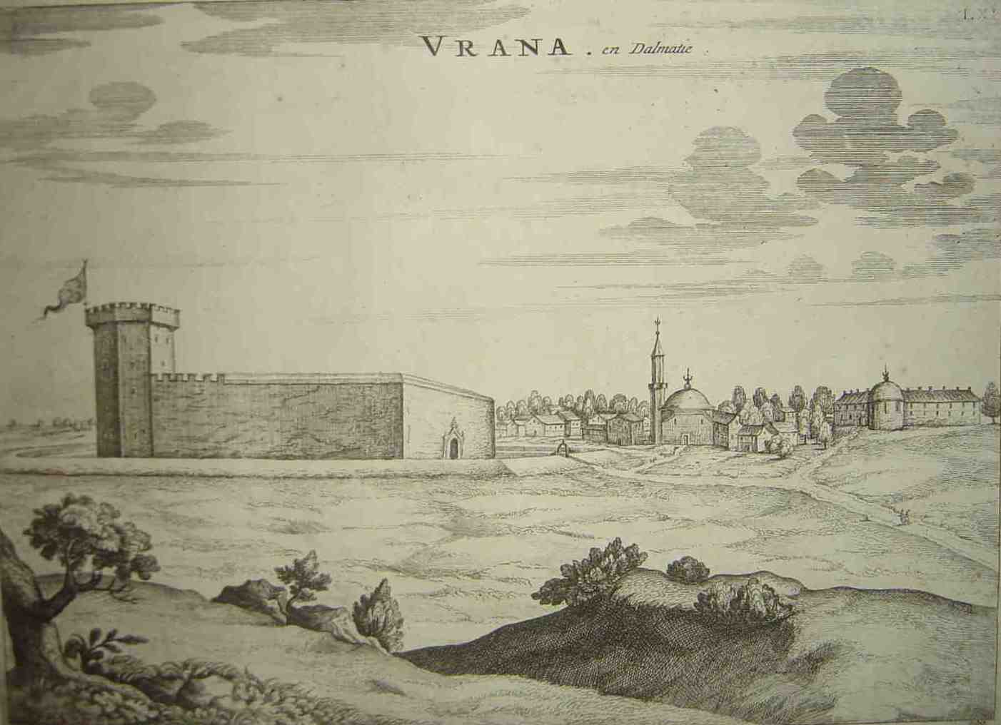 town Vrana (Croatia) under Ottoman rule, 17th century